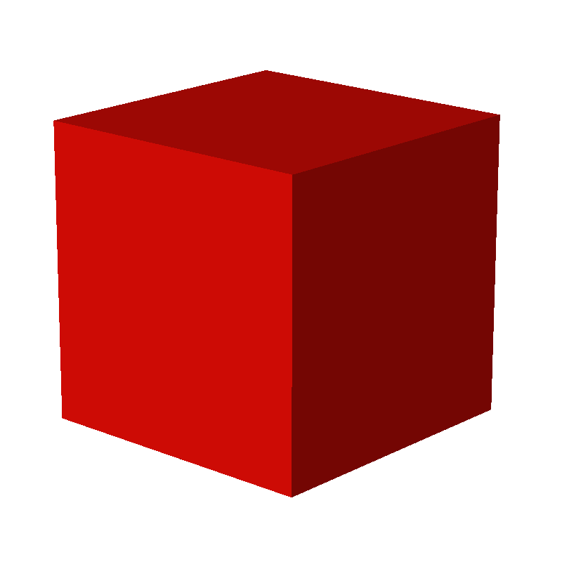 Cube